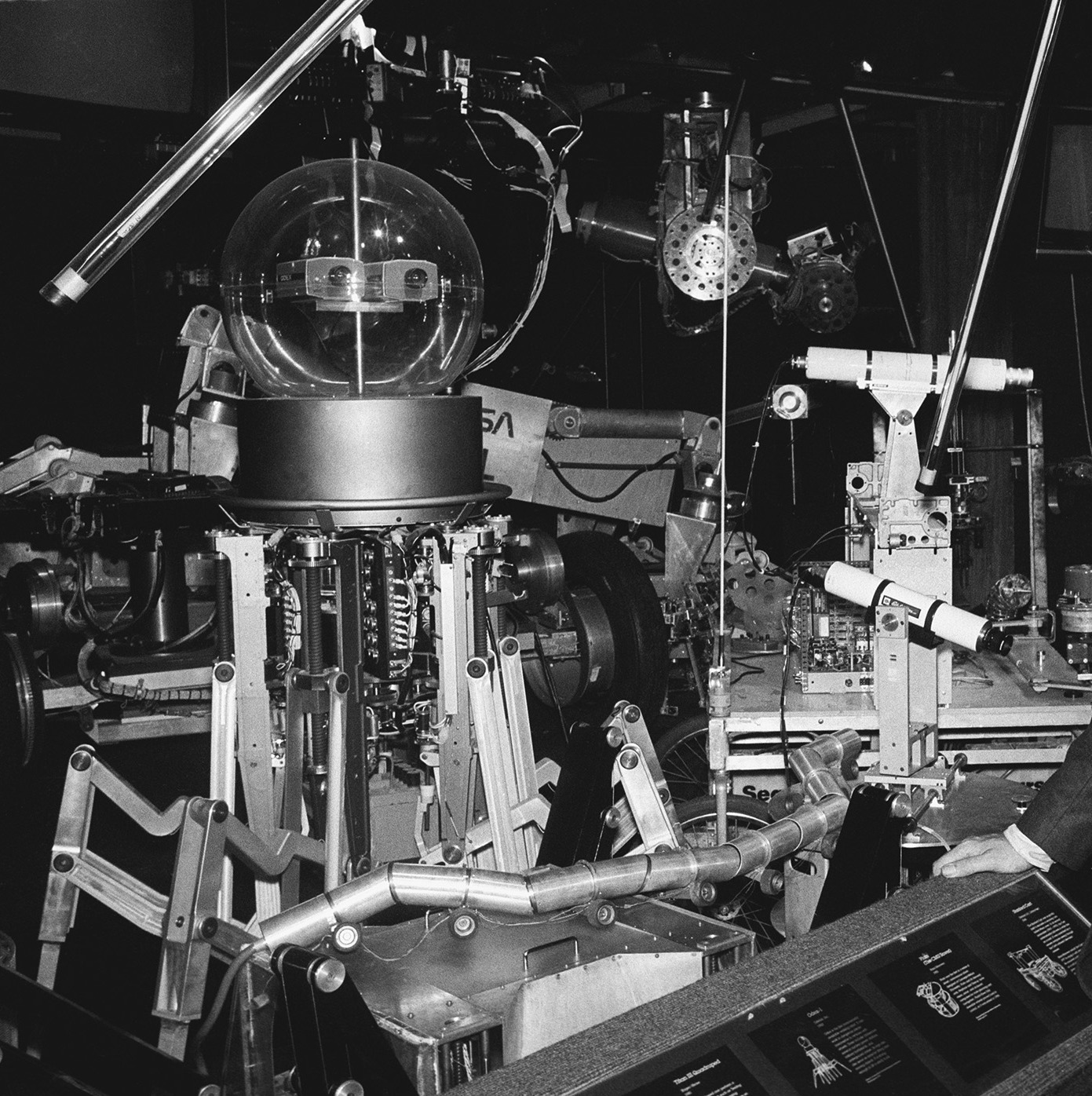 A collection of robots of historical interest exhibited in a multimedia theater in which the robots are highlighted and in some cases move when featured in a video program.